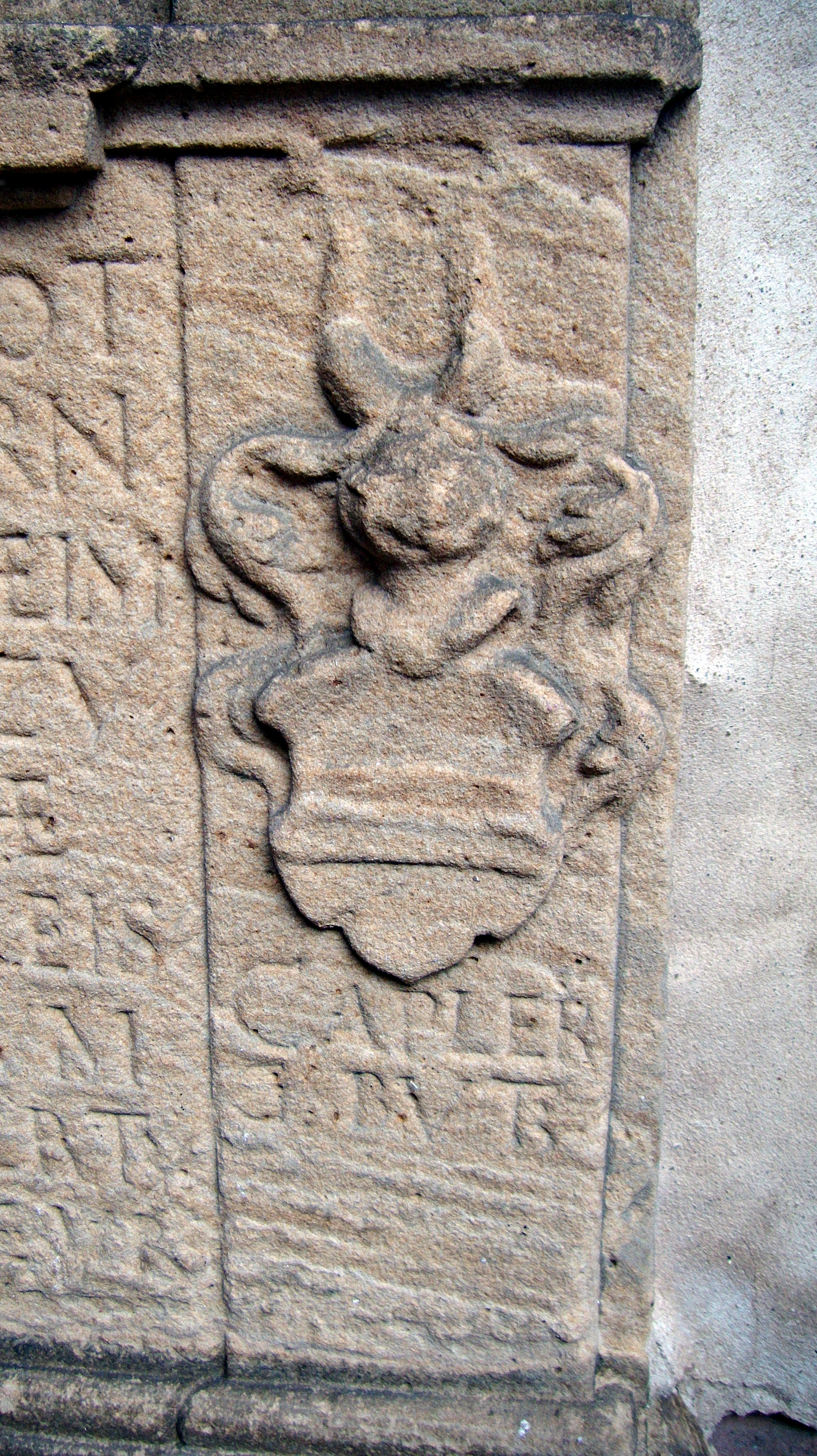 Ahnenwappen von Capler von Oedheim gen. Bautz, auf dem Grabstein des Wolf Leyser von Lambsheim, Deidesheim, Pfarrkirche St. Ulrich